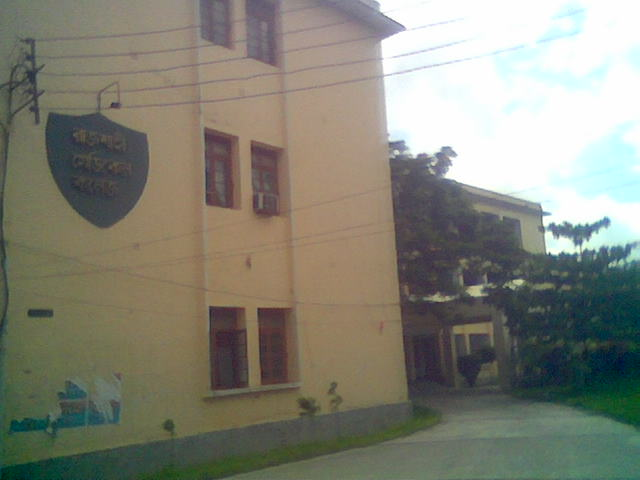 Image taken with Nokia 6020.